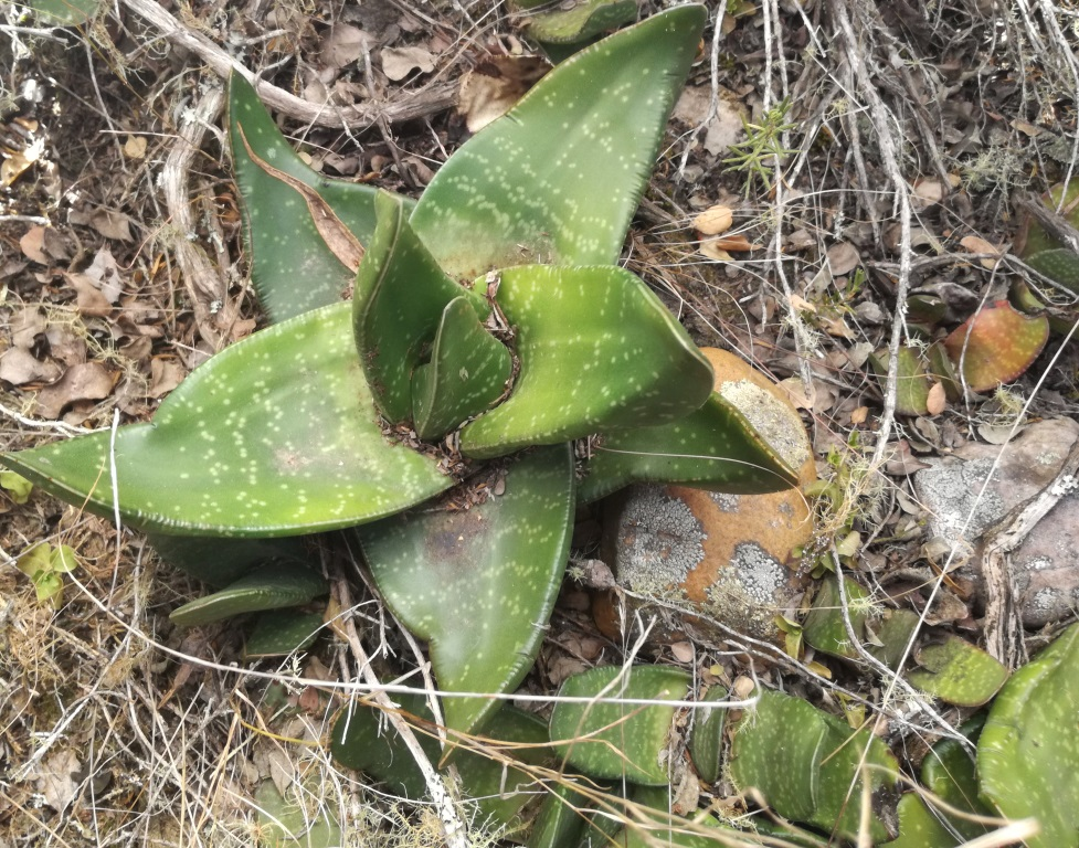 Gasteria carinata var. glabra. Adult plant in rosette with juvenile plants that are still distichous (leaves in two opposite ranks)